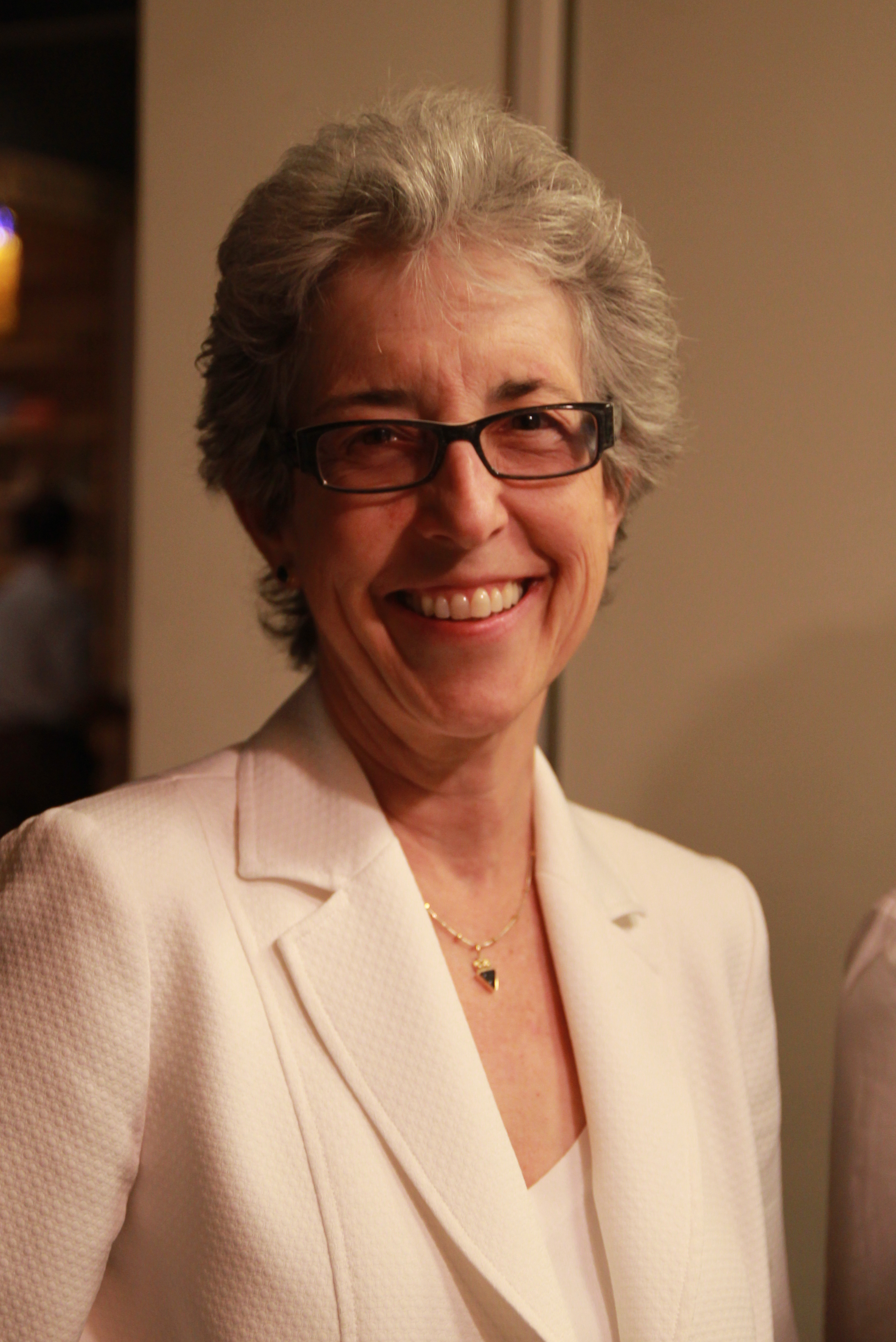 Carol Tavris receives an award for her work on the book "Mistakes Were Made: But Not by Me". IIG presents the award at the IIG 10th Anniversary Awards, CFI Headquarters, Hollywood.